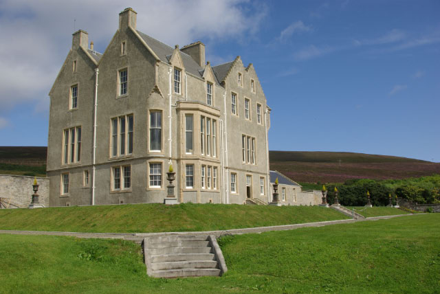 Trumland House The house was designed by David Bryce - who was also responsible for Balfour Castle on Shapinsay - and completed in 1876 for the laird, General Sir Frederick William Traill-Burroughs. Although it is not open to the public - and is currently being renovated - it is possible to visit the gardens for a small fee.